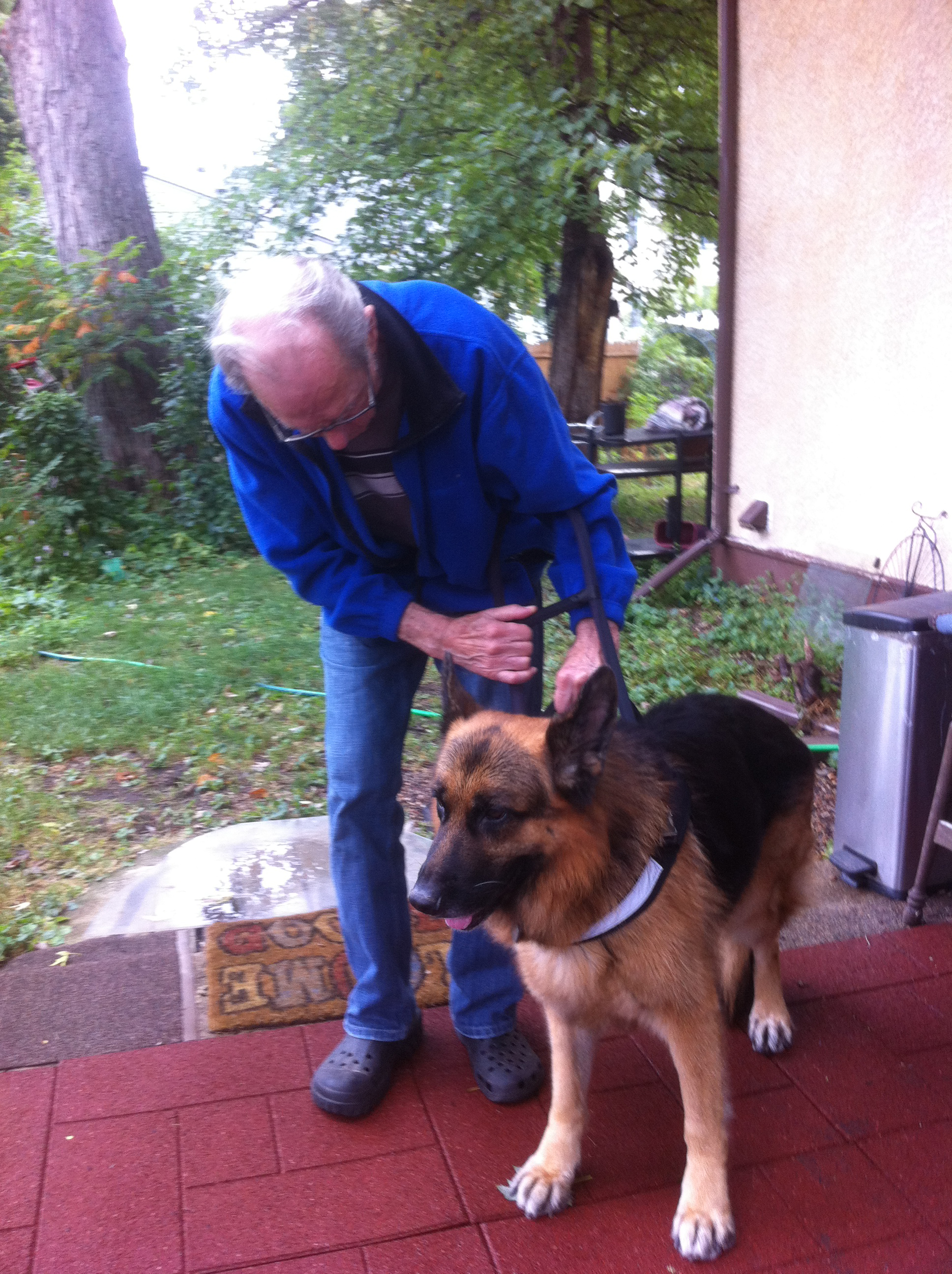 Mobility service dog bracing himself so that his handler can lean on him to stand up.